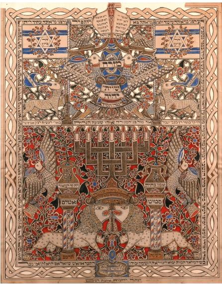 Mizrah. Ink and watercolor on papercut. Made in Brooklyn NY 1921/22 by Mordecai Reicher.